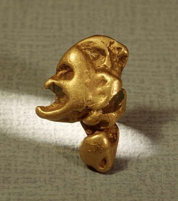 Golden Nugget "Mephistopheles"